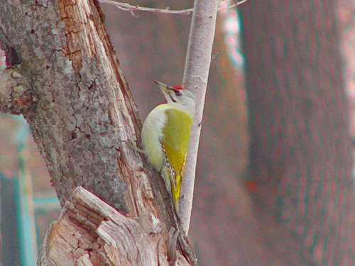 Grey Headed Woodpecker (Picus canus) of the subspecies P. c. jessoensis photographed in Hokkaido in Japan.